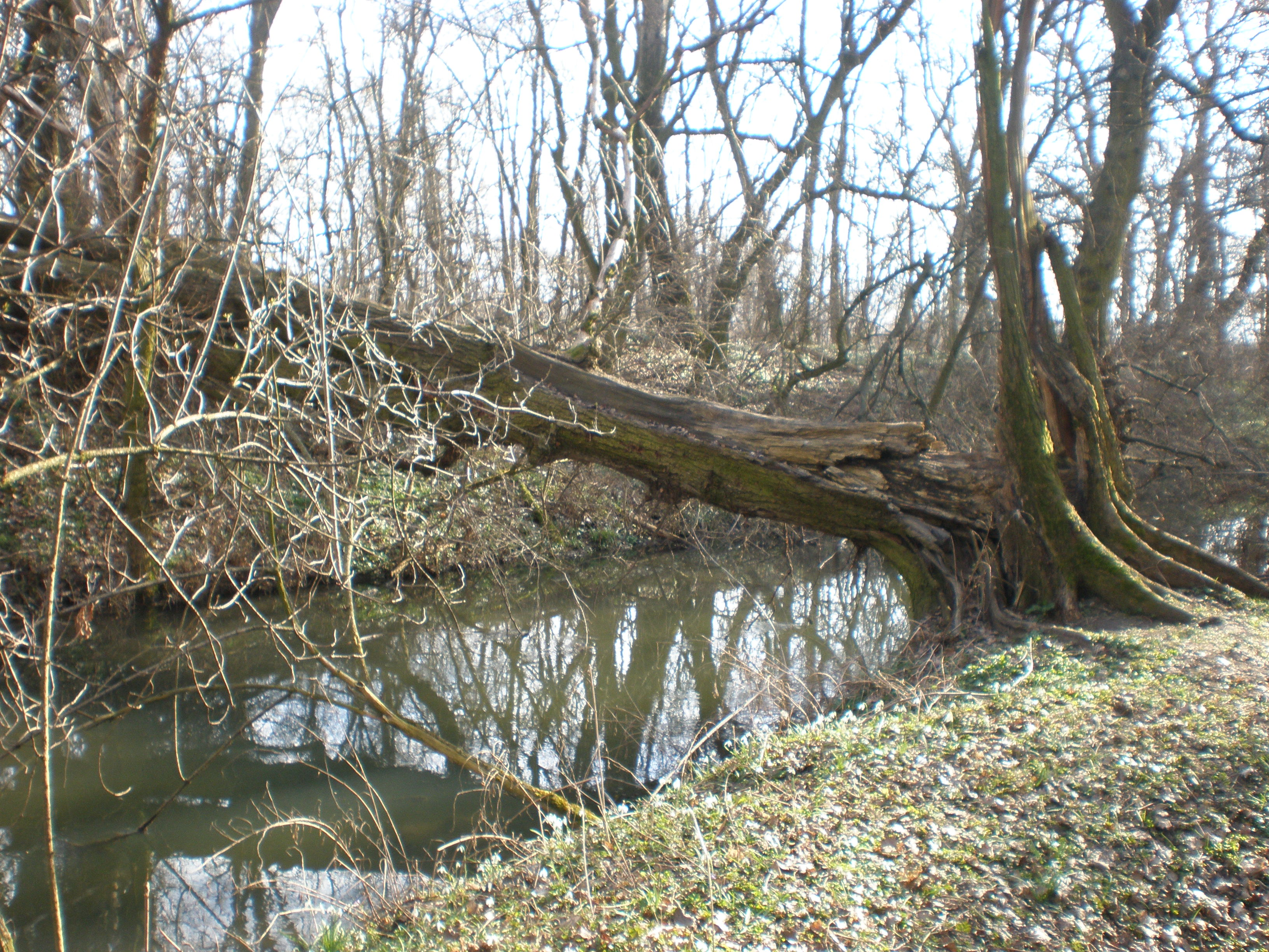 Riparian forests on Little Danube - in Slovakia